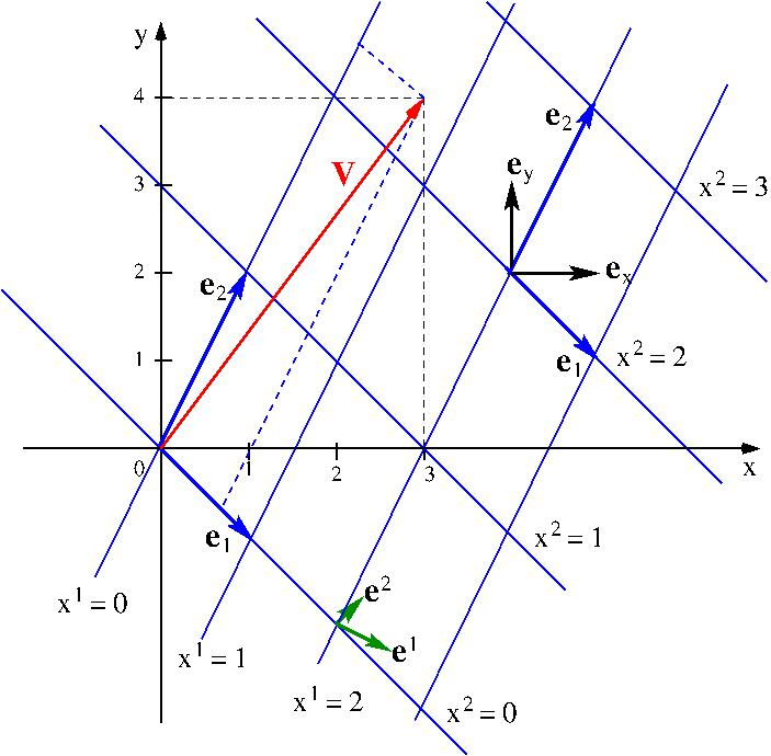 Example of skewed, linear coordinates and bases.